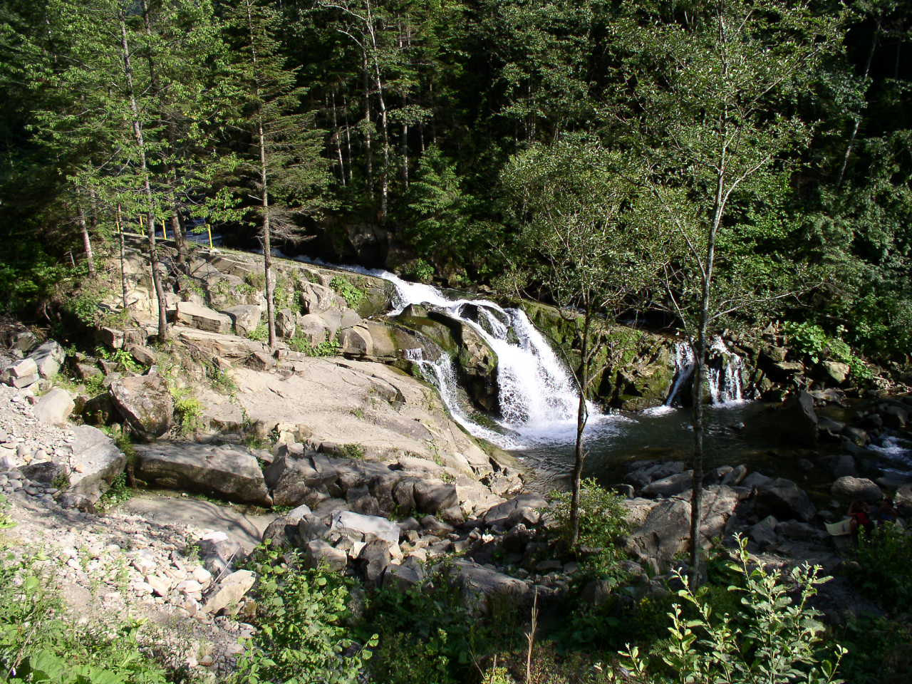 Kamianka Waterfall. Kamianka-Buzka, Ukraine.